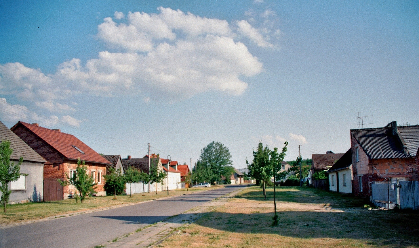 Byhlener Dorfstraße (Byhlen Village Street) in Byhlen, Byhleguhre-Byhlen, Landkreis Dahme-Spreewald, Brandenburg, Germany.